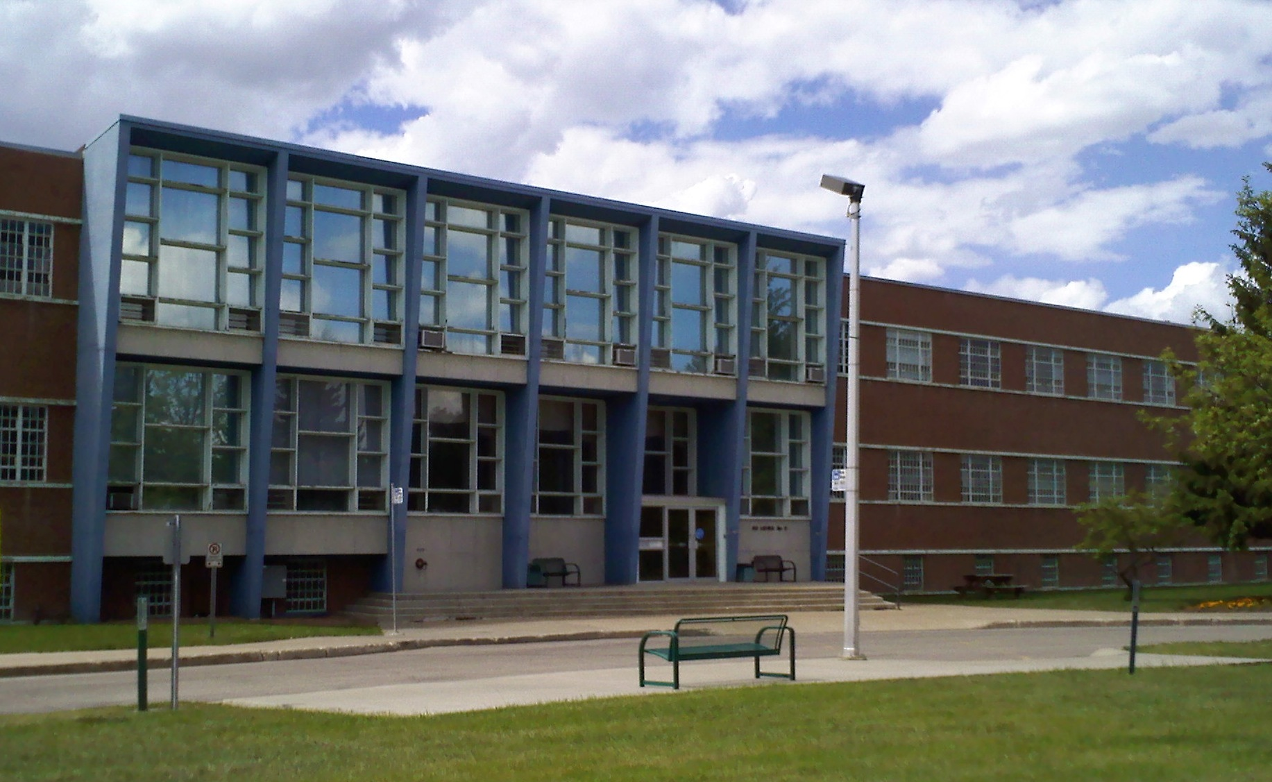 East side of Alberta Hospital Edmonton building 9.